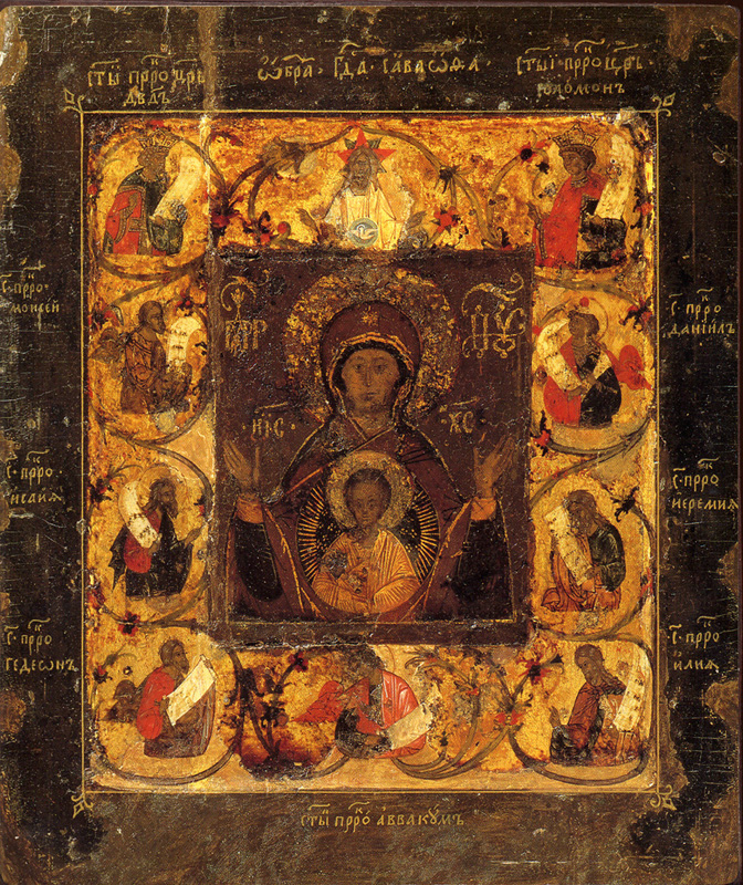 Icon of Our Lady of Kursk. 13 century.